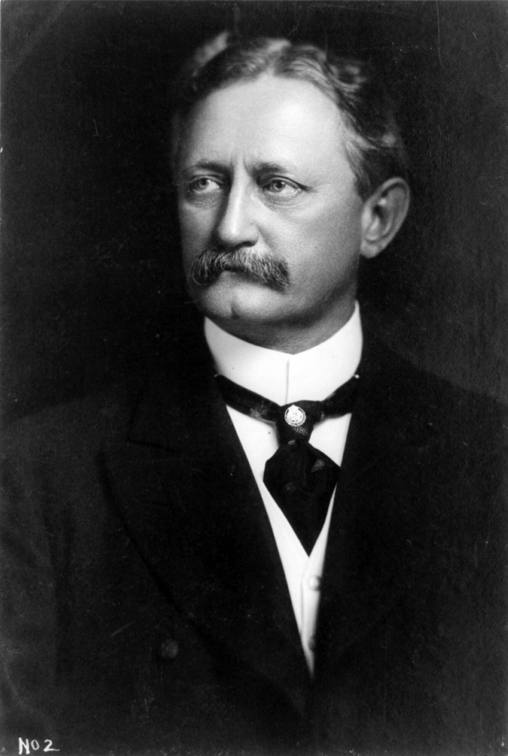 David Rowland Francis. Sectary of Interior, Governor of Missouri